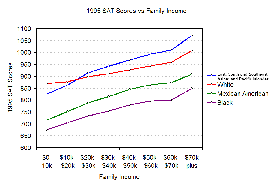 The SAT scores do not only show Asian but "Asian and Pacific Islander". "Asian American" includes South and Southeast Asian.